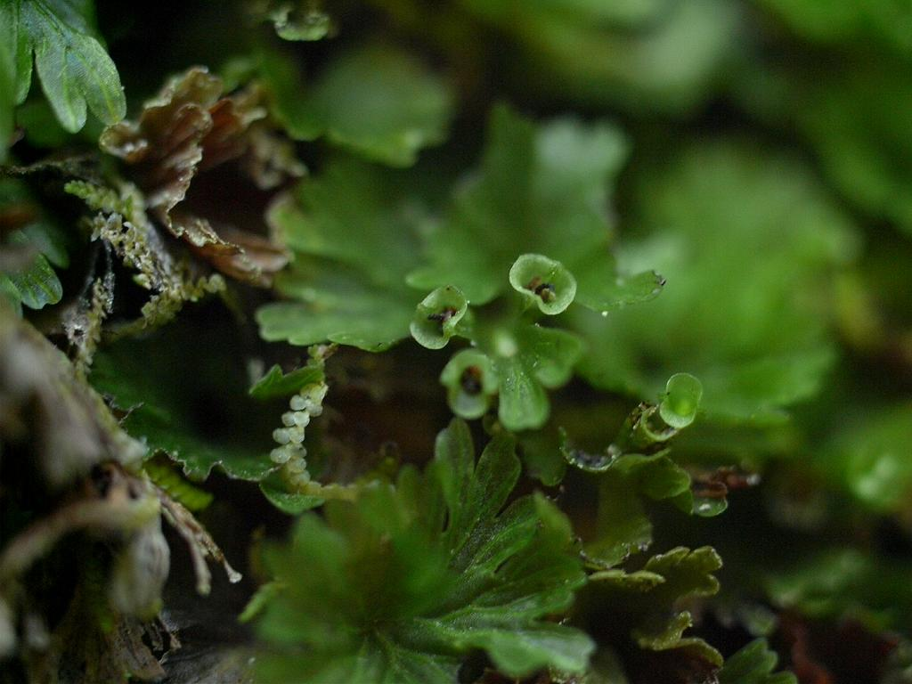 Crepidomanes_minutum(Hymenophyllaceae)